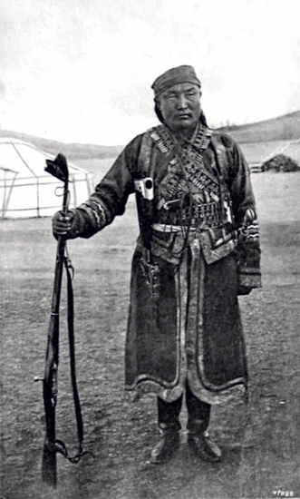 Ja Lama